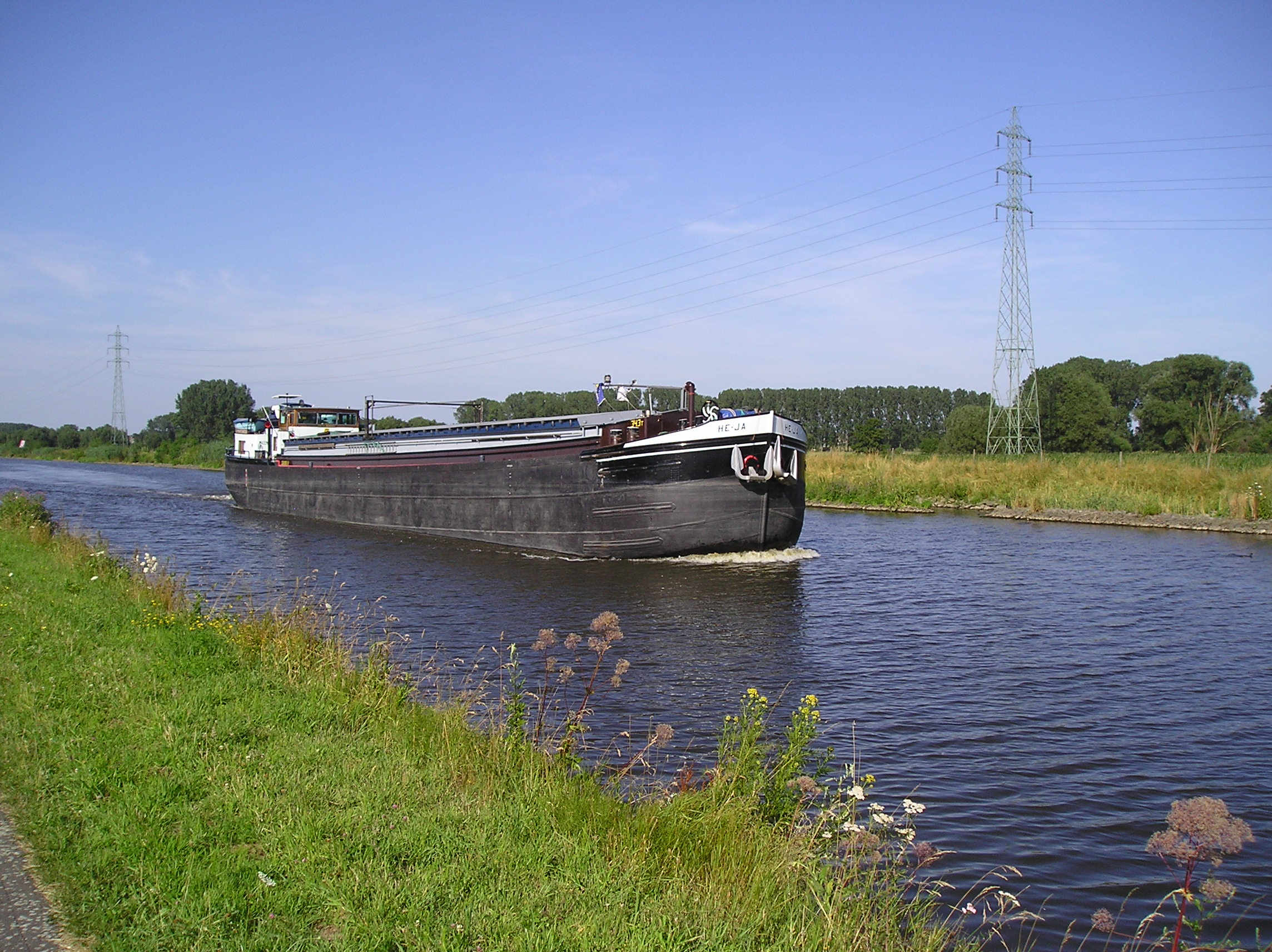 Ship on the Dender river, travelling from Dendermonde in the direction of Aalst.